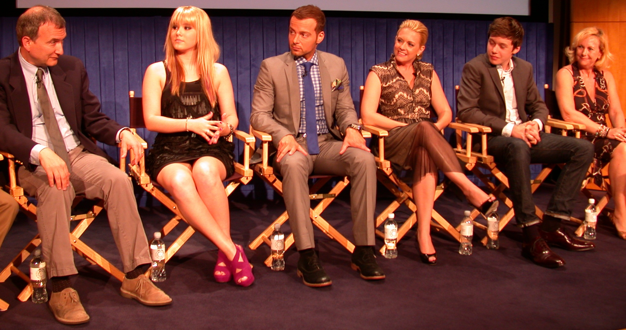 From left to right: David Kendall, Taylor Spreitler, Joey Lawrence, Melissa Joan Hart, Nick Robinson, Paula Hart.